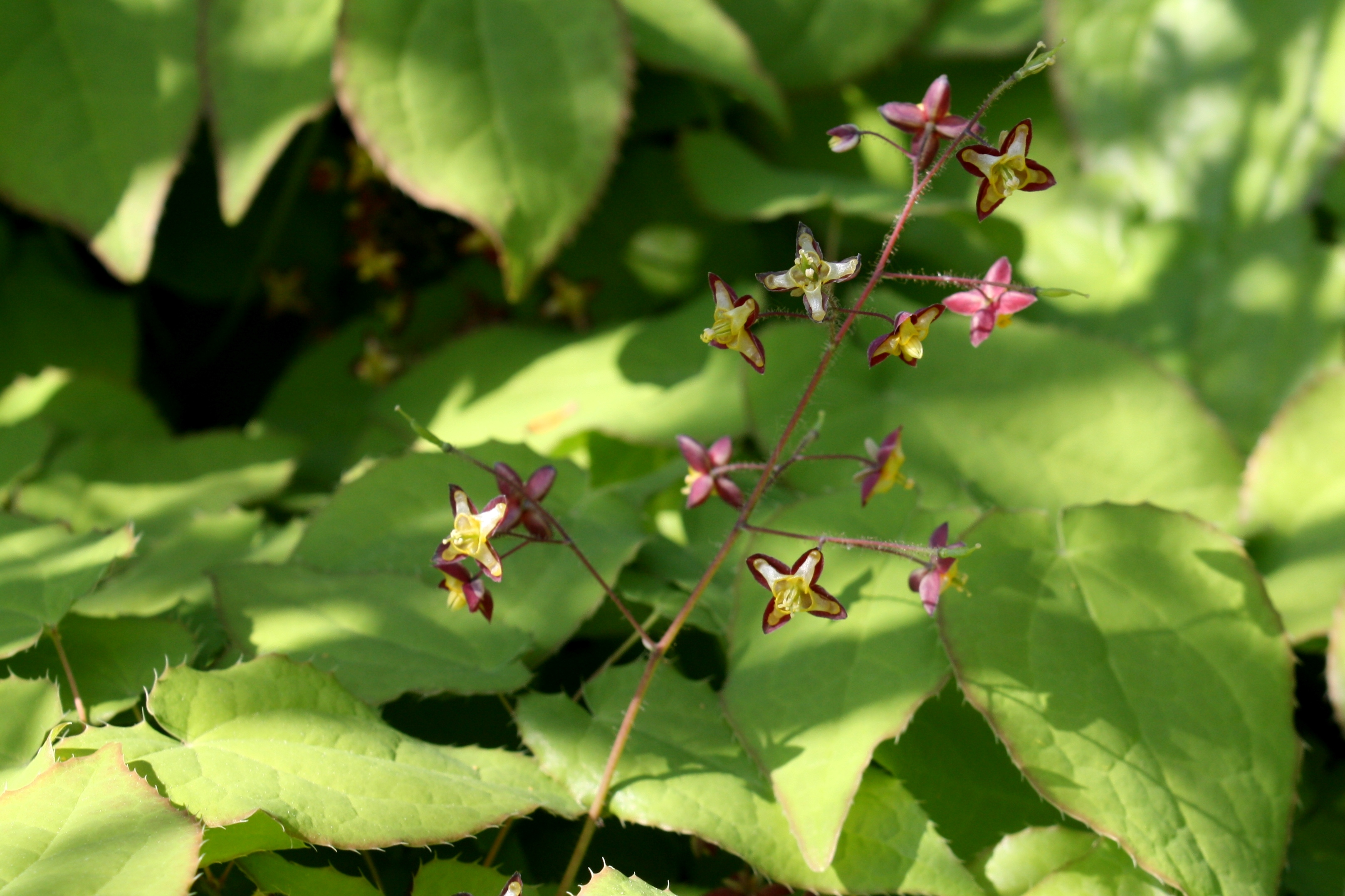 Alpine barrenwort (Epimedium alpinum) in The University of Helsinki Botanical Garden in Kaisaniemi